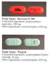 From the Department of Justice website [1].